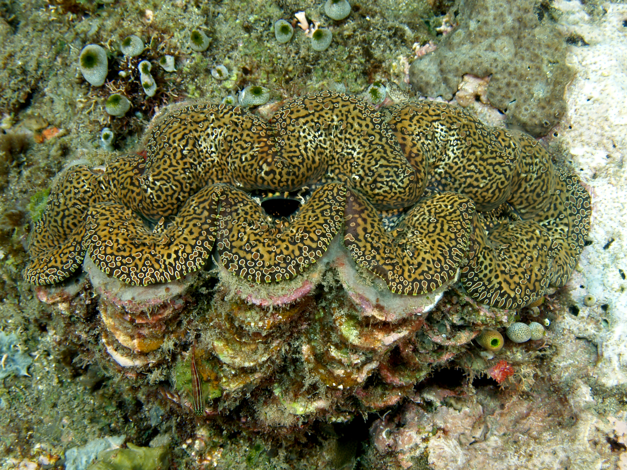 Tridacna squamosa (Giant clam) with fluted shell